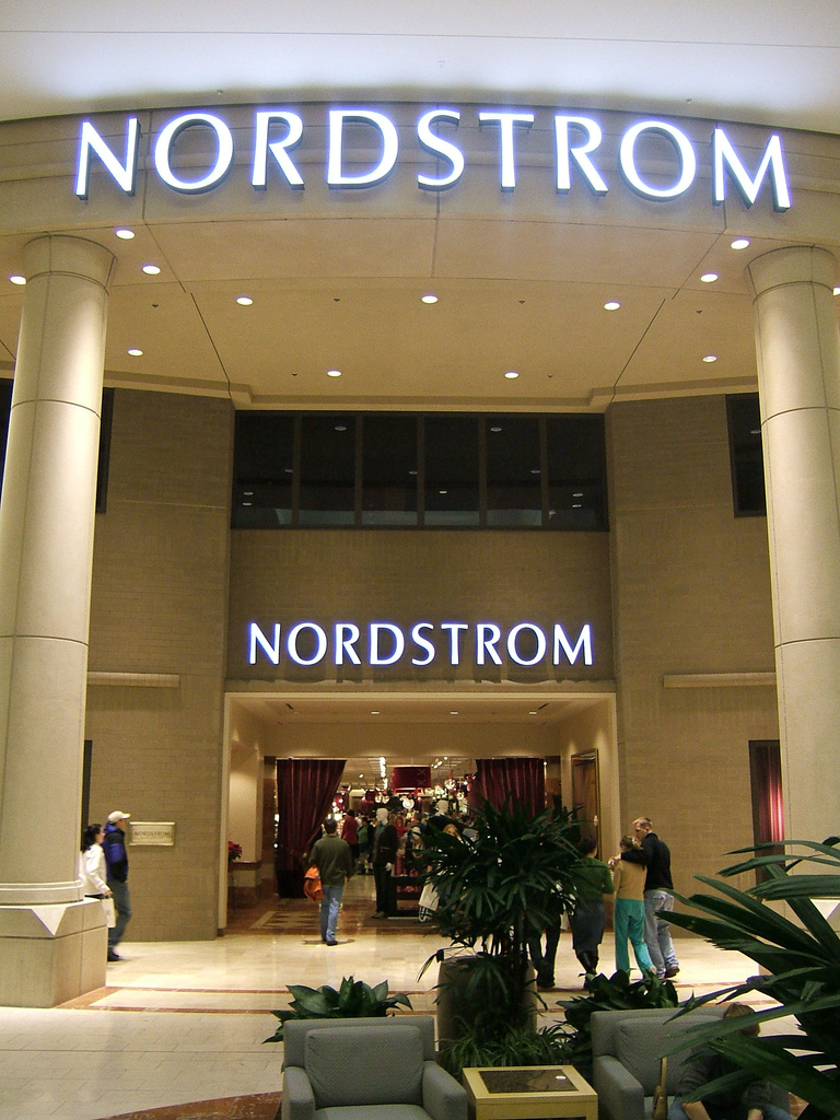 Nordstrom at Washington Square (Oregon)